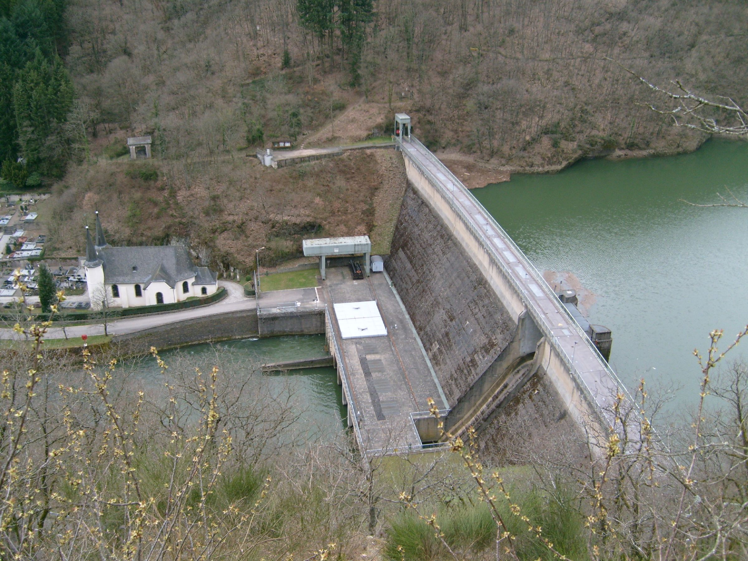 View from above on the Barrage of the Our river next to Vianden, Luxembourg.